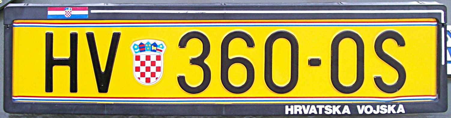 Licence plate on the croatian military vehicles